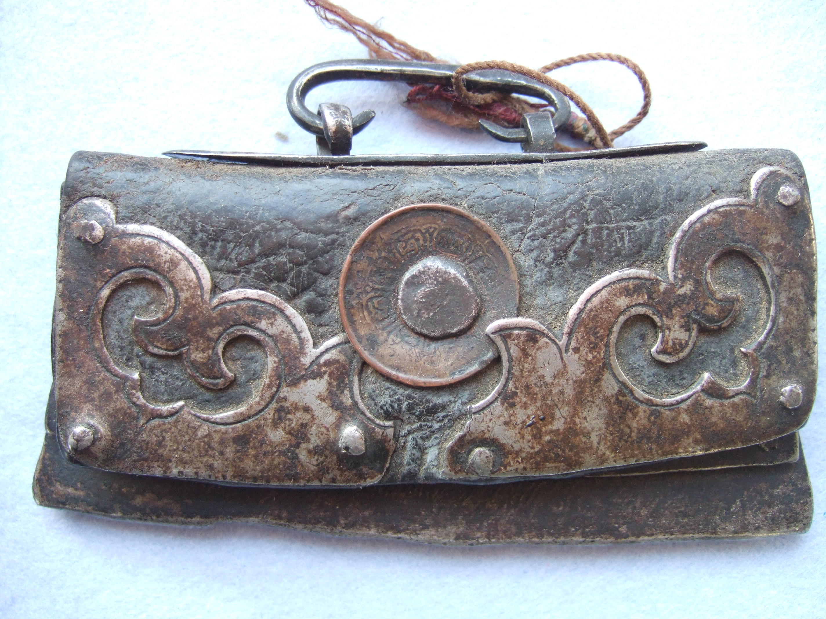 Tibetan flintpoach (lighter), 20th century